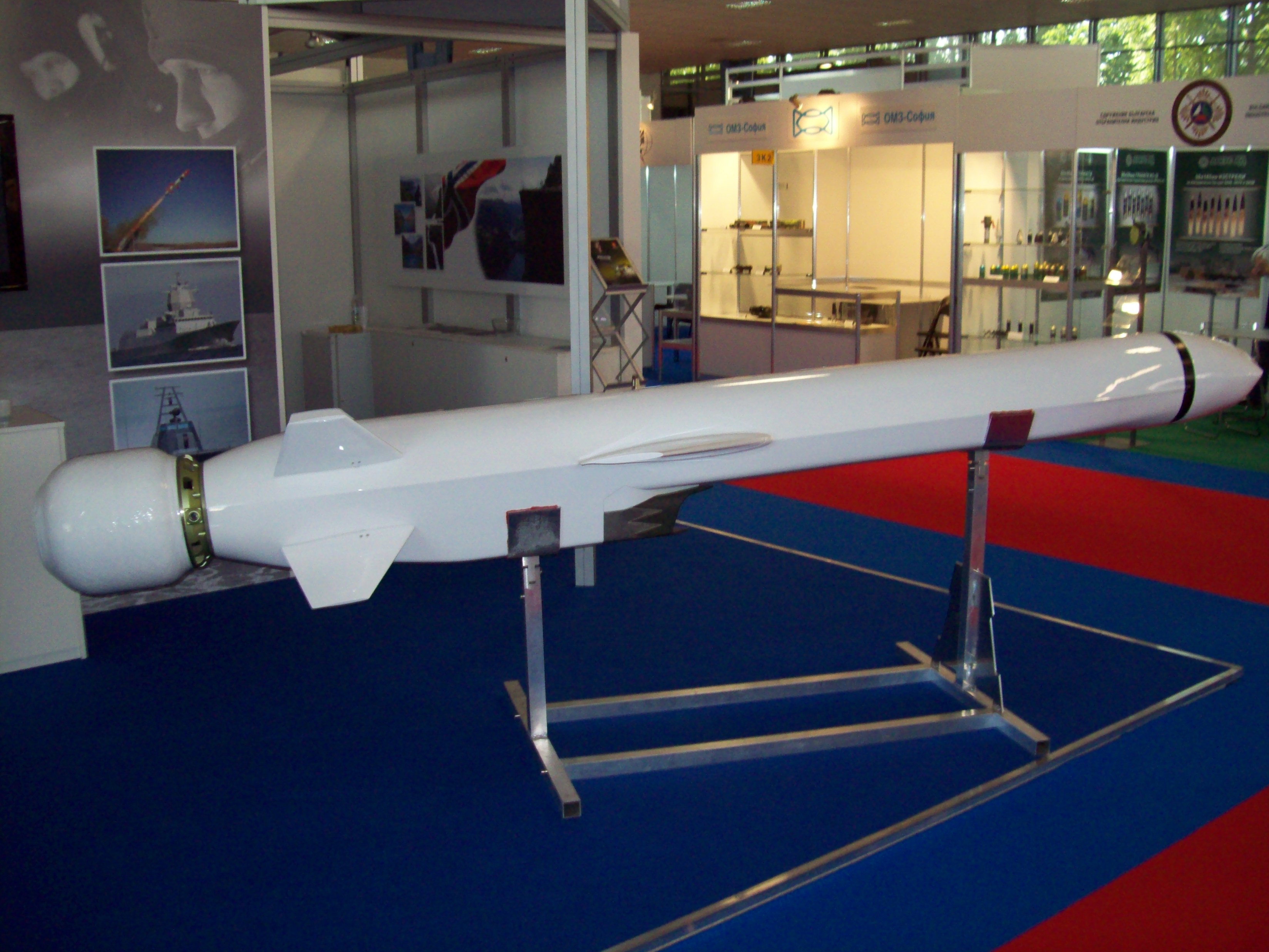 Naval Strike Missile (NSM). Exhibition Hemus 2010, International Fair Plovdiv. Side view.